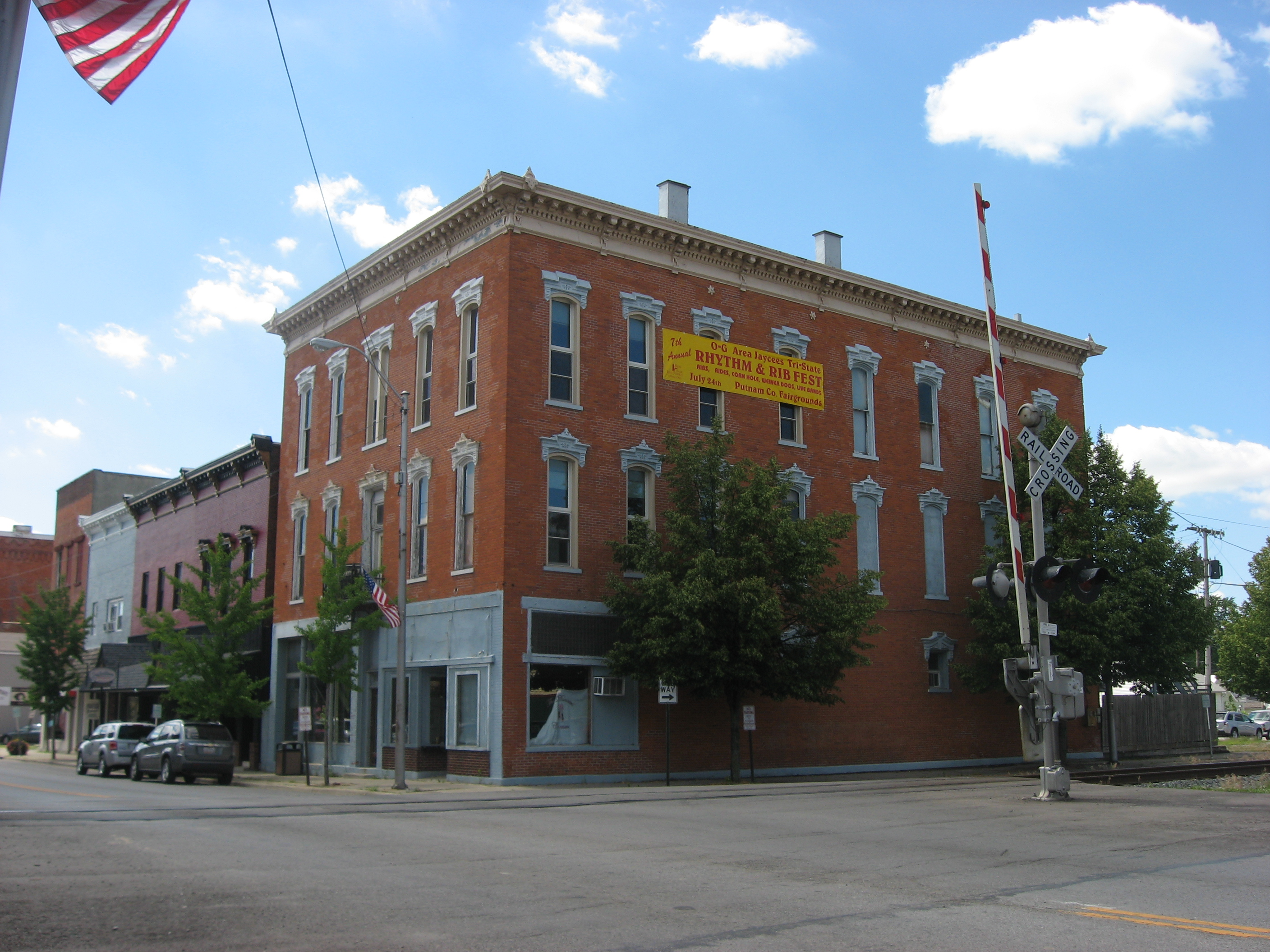 Front and eastern side of the Dr. H. Huber Block, located at 102 W. Main Street (U.S. Route 224) in Ottawa, Ohio, United States. Built in 1882, it is listed on the National Register of Historic Places.